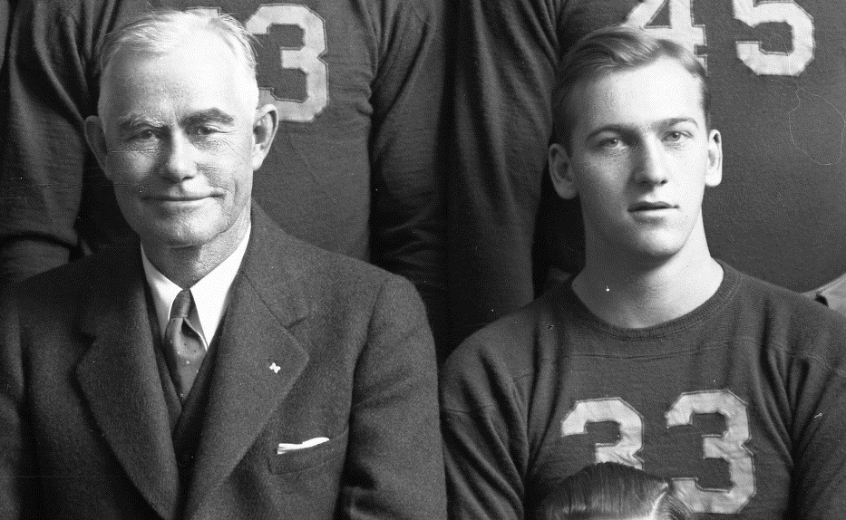 Photograph of Fielding H. Yost and Stark Ritchie cropped from 1936 Michigan football team portrait This work is in the public domain because it was published in the United States between 1923 and 1963 and although there may or may not have been a copyright notice, the copyright was not renewed. Unless its author has been dead for the required period, it is copyrighted in the countries or areas that do not apply the rule of the shorter term for US works, such as Canada (50 pma), Mainland China (50 pma, not Hong Kong or Macao), Germany (70 pma), Mexico (100 pma), Switzerland (70 pma), and other countries with individual treaties. See Commons:Hirtle chart for further explanation. This work is in the public domain in the United States because it was published in the United States between 1923 and 1977 without a copyright notice. See this page for further explanation. Note that it may still be copyrighted in jurisdictions that do not apply the rule of the shorter term for US works (depending on the date of the author's death), such as Canada (50 p.m.a.), Mainland China (50 p.m.a., not Hong Kong or Macao), Germany (70 p.m.a.), Mexico (100 p.m.a.), Switzerland (70 p.m.a.), and other countries with individual treaties.